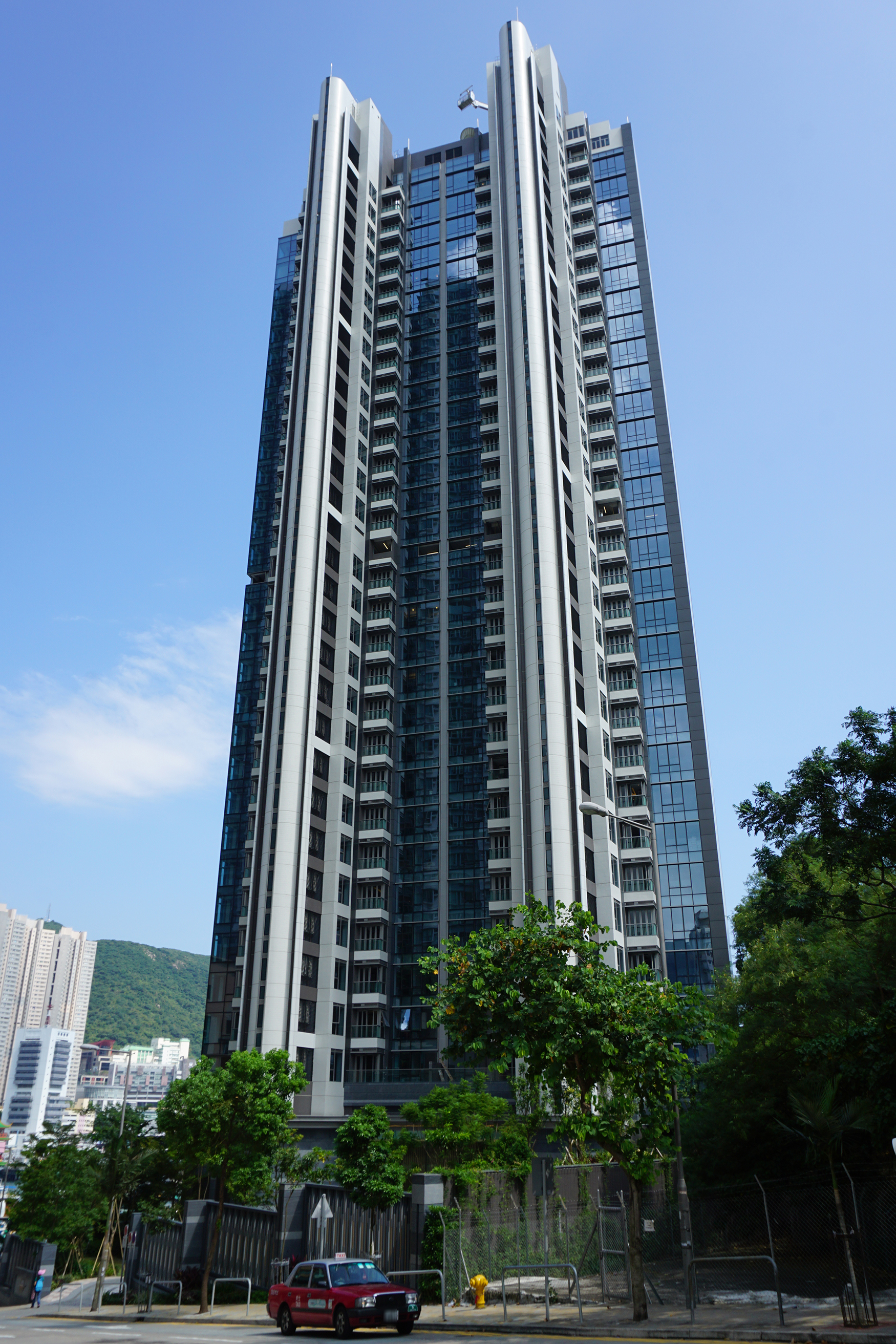 Marina South in Ap Lei Chau, Hong Kong.